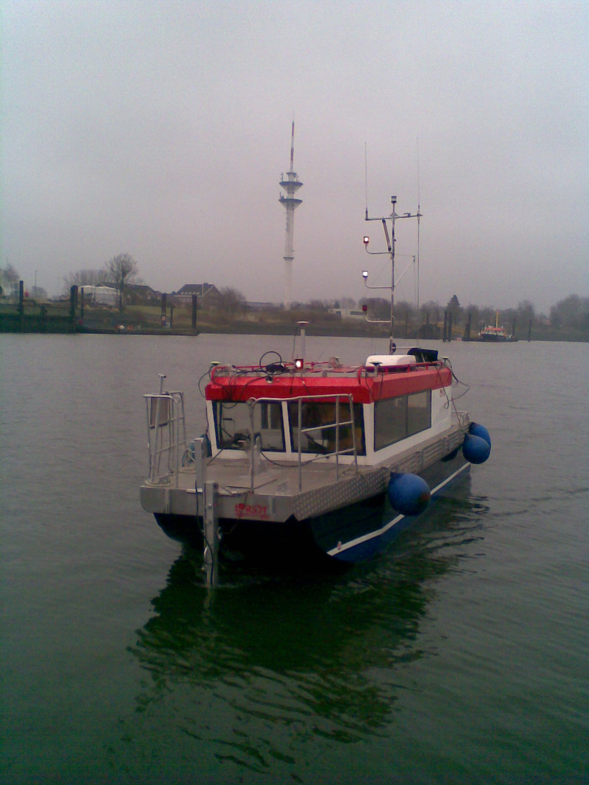 Survey boat Level-A of HafenCity Universität Hamburg (HCU), GermanyThe photographer and uploader of this image died on September 1, 2012 after the above depicted boot collided with another ship and capsized.[1]